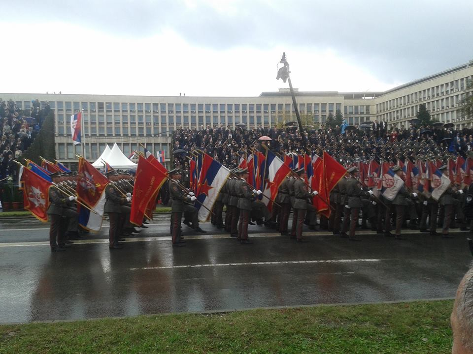 Military unit with flags of Serbian army from the WW I, Yugoslav partisans' units which participated in the liberation of Belgrade 1944 from the WW II and current flags of the Army of the Republic of Serbia - Belgrade military parade, 16th October 2014.